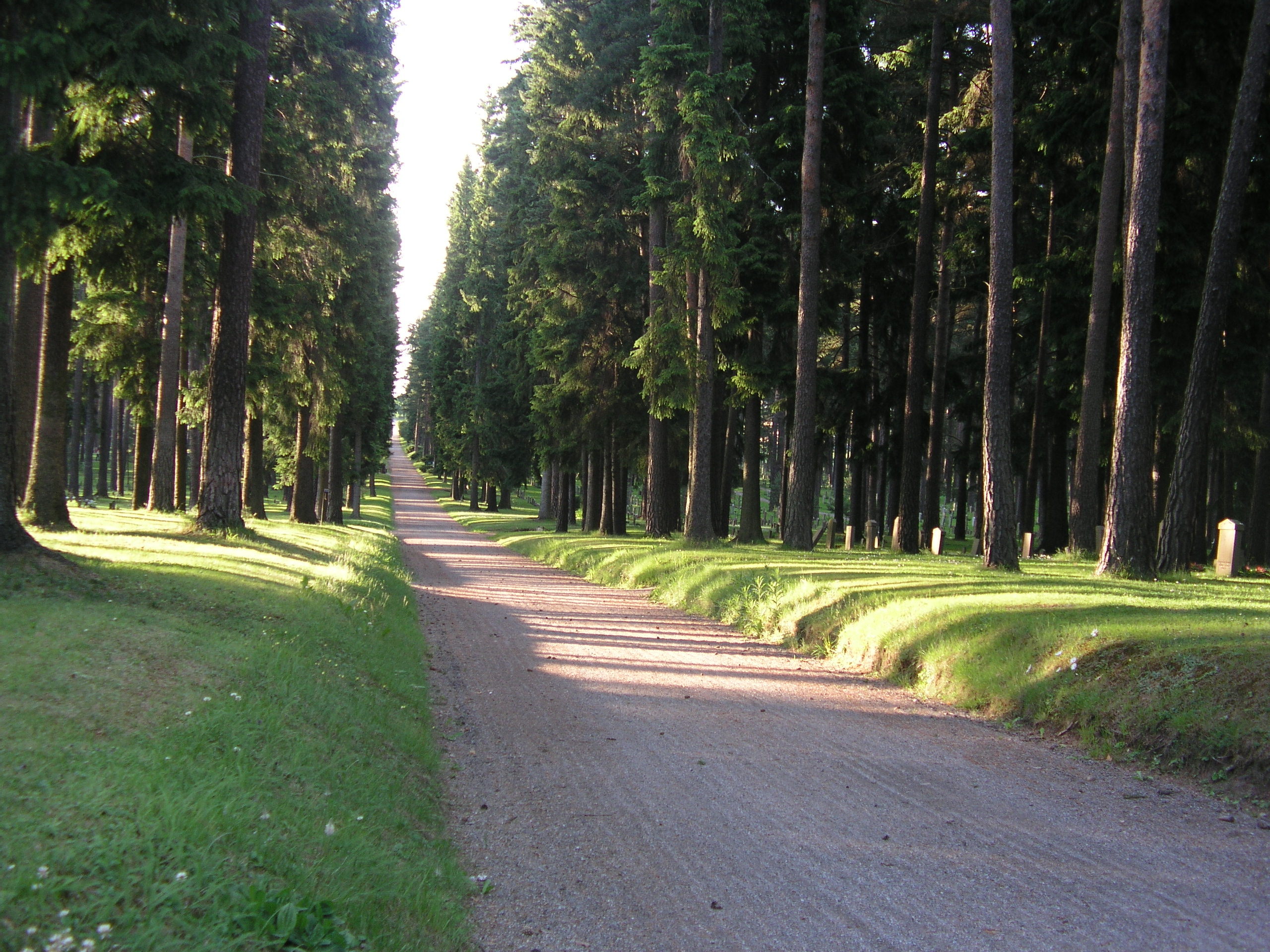 Skogskyrkogården, walk-way of the Seven Wells.